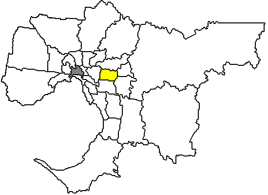 Map of Melbourne, Victoria (Australia), LGA of Whithorse City highlighted